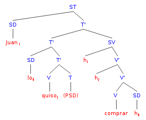 Clitic lo needs to be preverbal with finite verb quiso